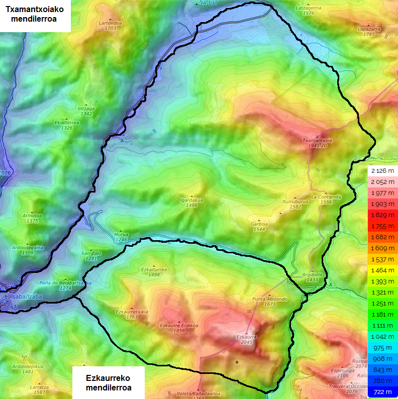 Topographic map showing the Txamantxoia and Ezkaurre Ranges.